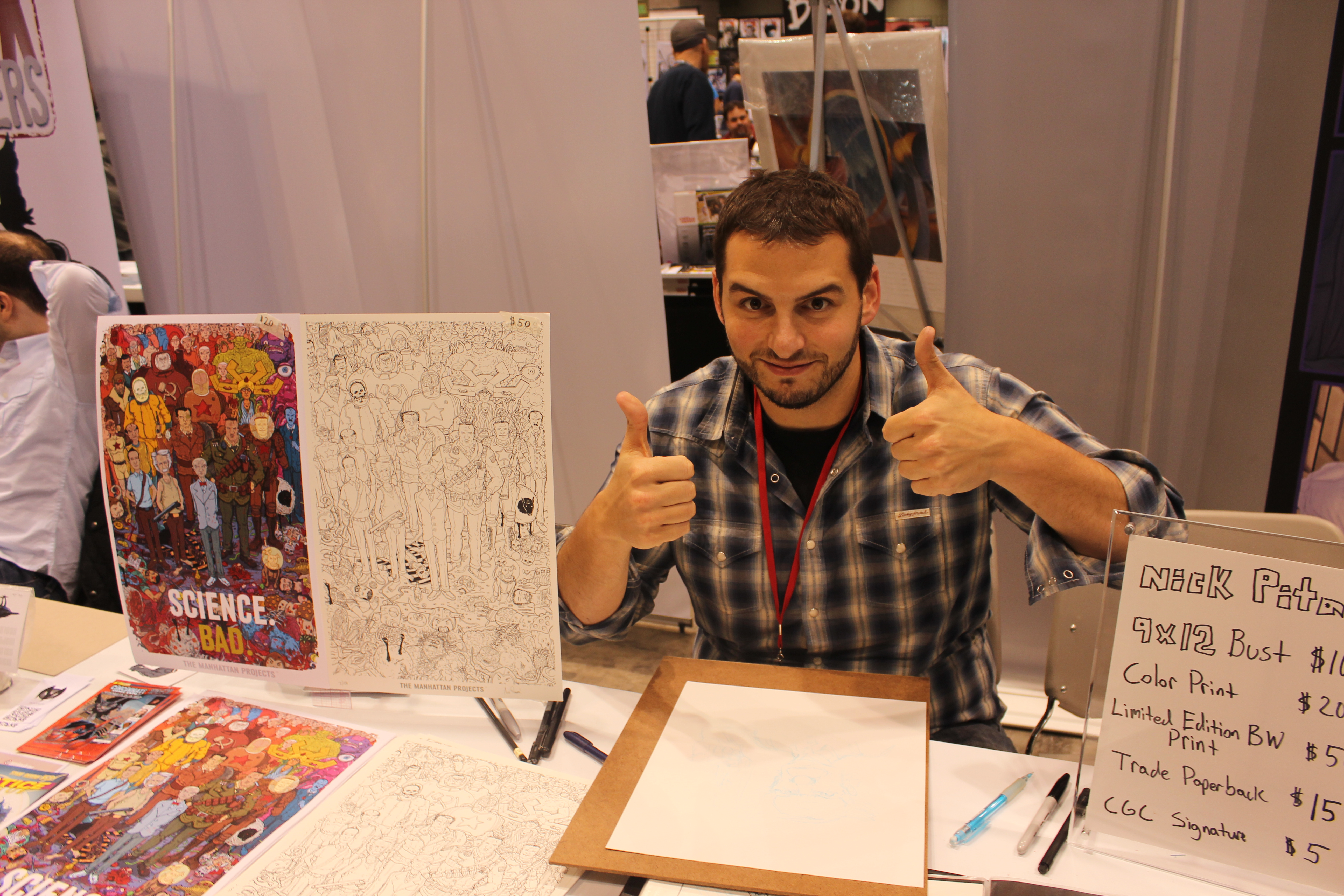 Chicago Comic & Entertainment Expo (C2E2) in 2013.